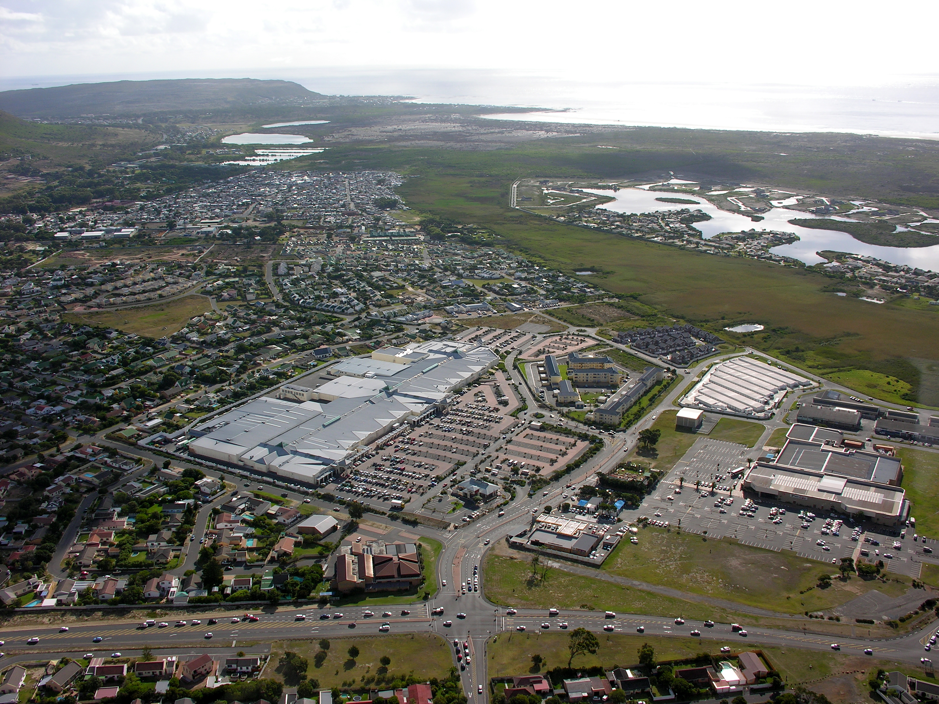 South Africa, Aerial views around Cape Town. For exact location see geocode.